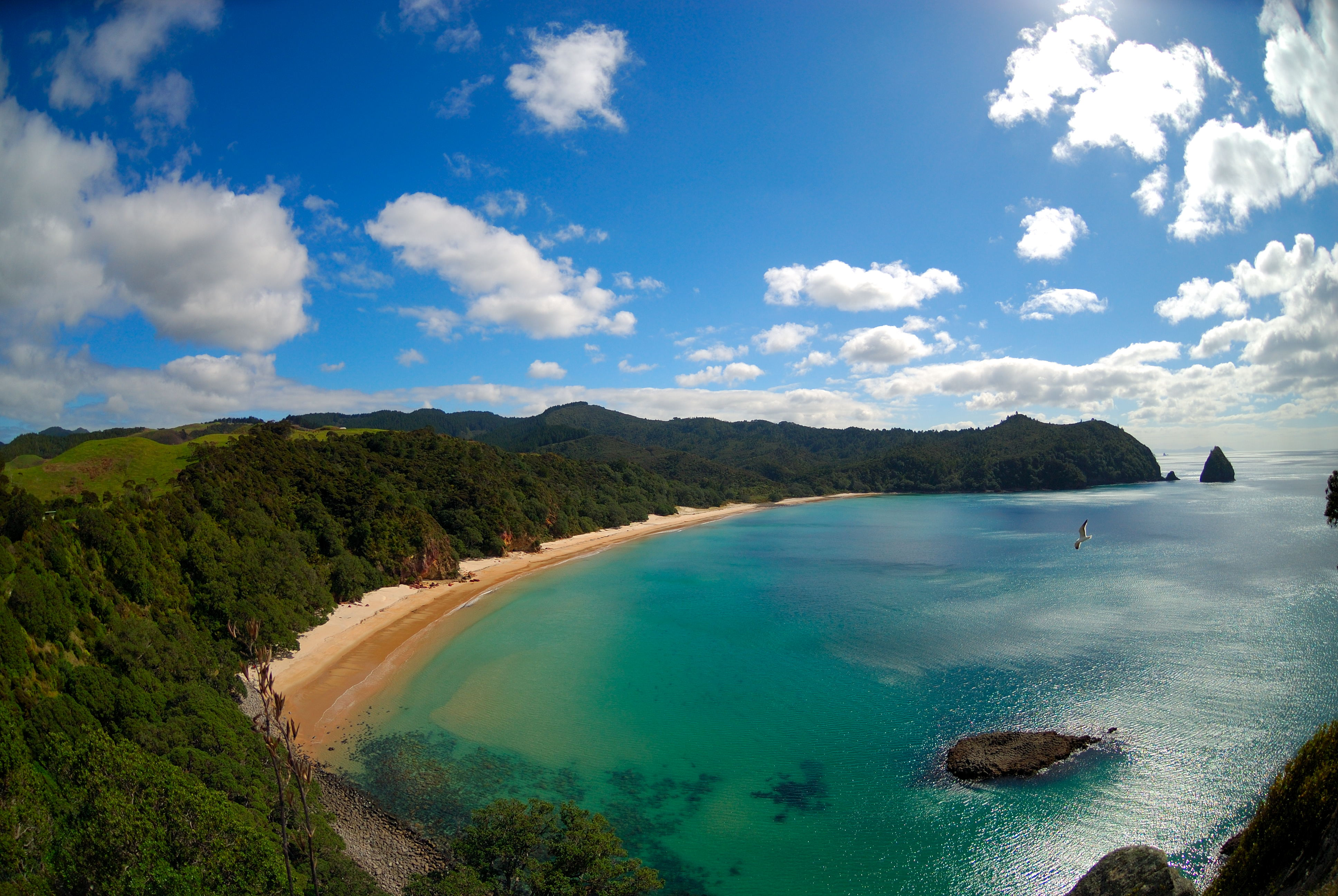 New Chums Beach at Whangapoua, Waikato, New Zealand.